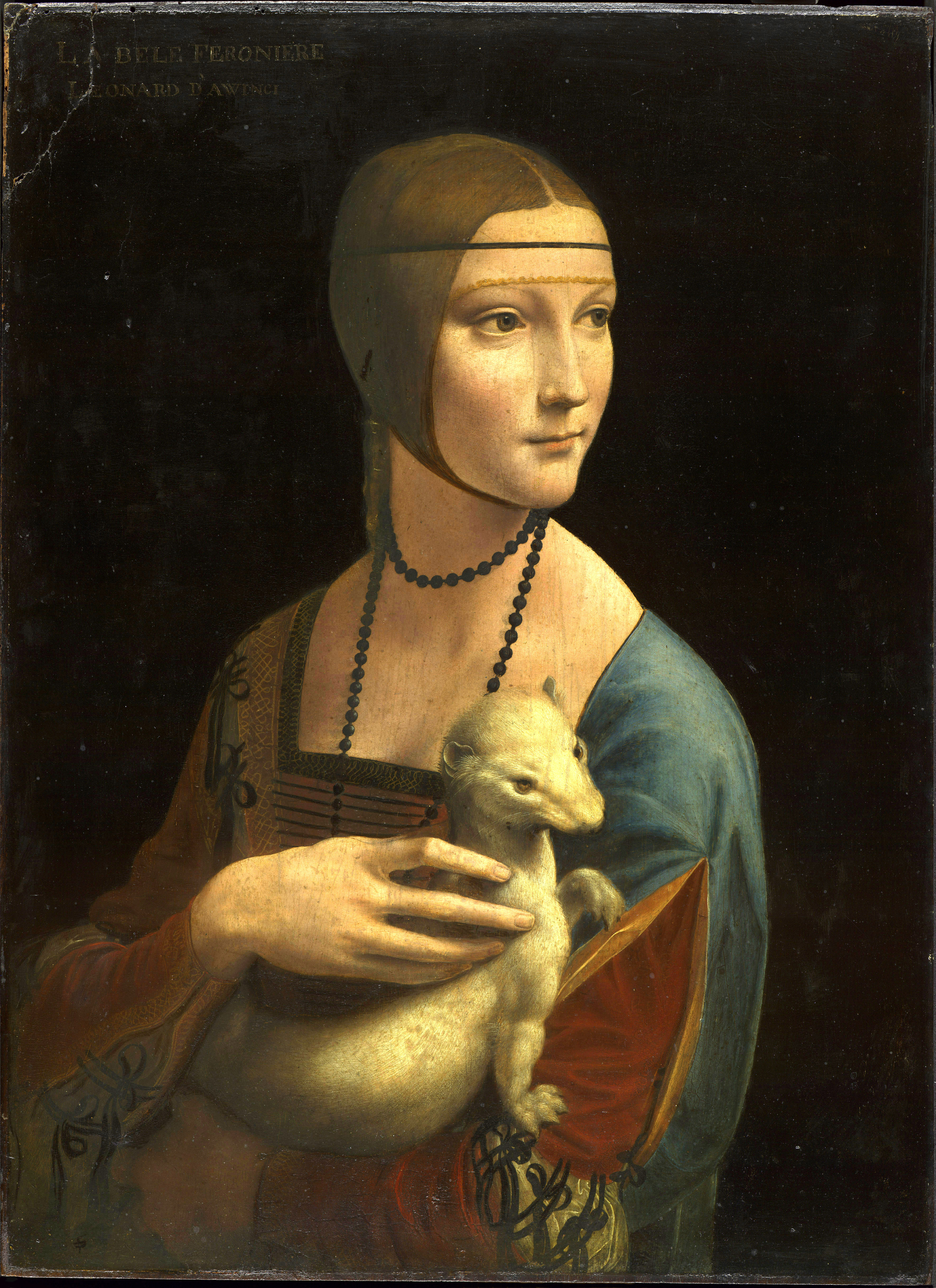 A young woman holds an ermine in her arms.